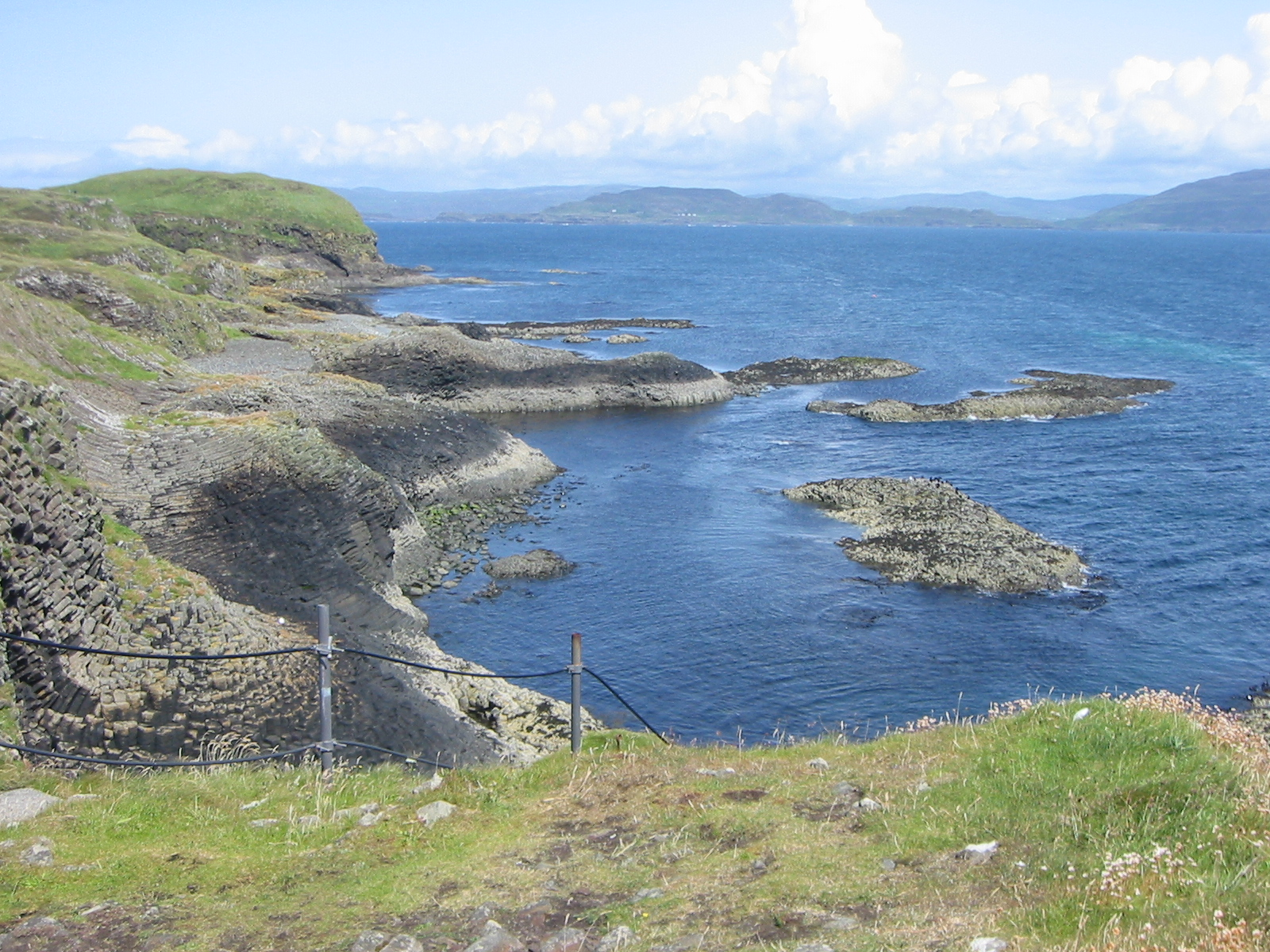 North east Staffa, Scotland, looking over to Ulva and Mull.